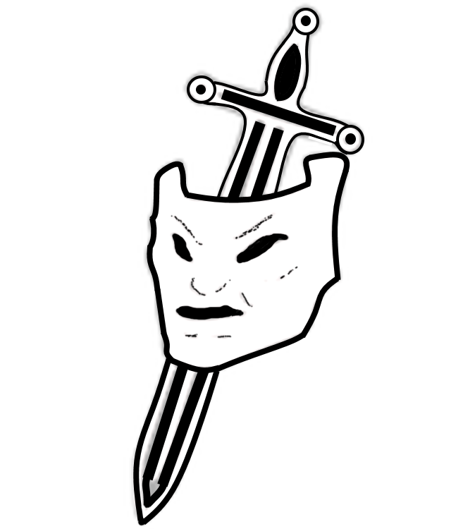 Brandenburger Division, German Army, World War II